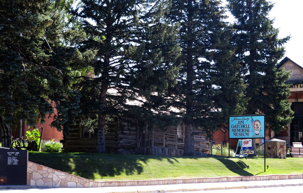 Image of the Jim Gatchell museum in Buffalo, Wy.